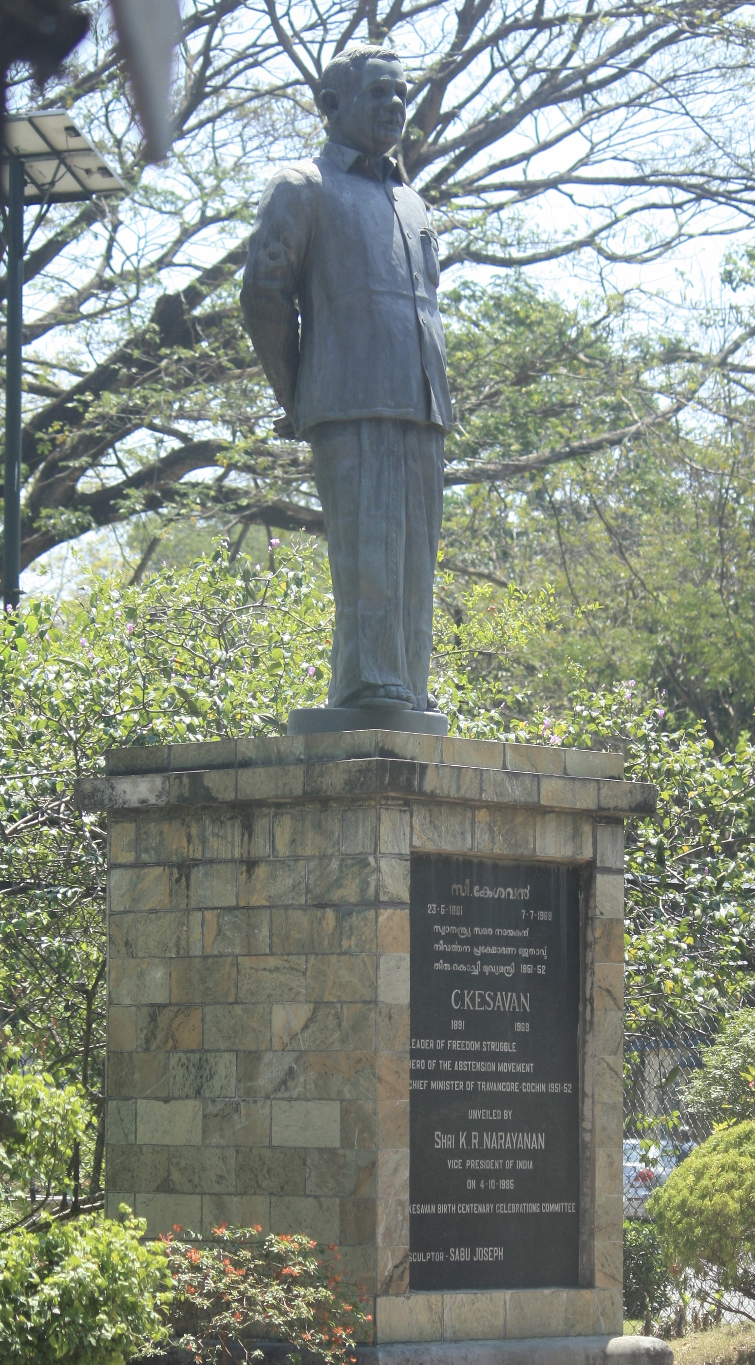 Statue of C. Kesavan in Thiruvananthapuram, located opposite the entrance to Napier Museum